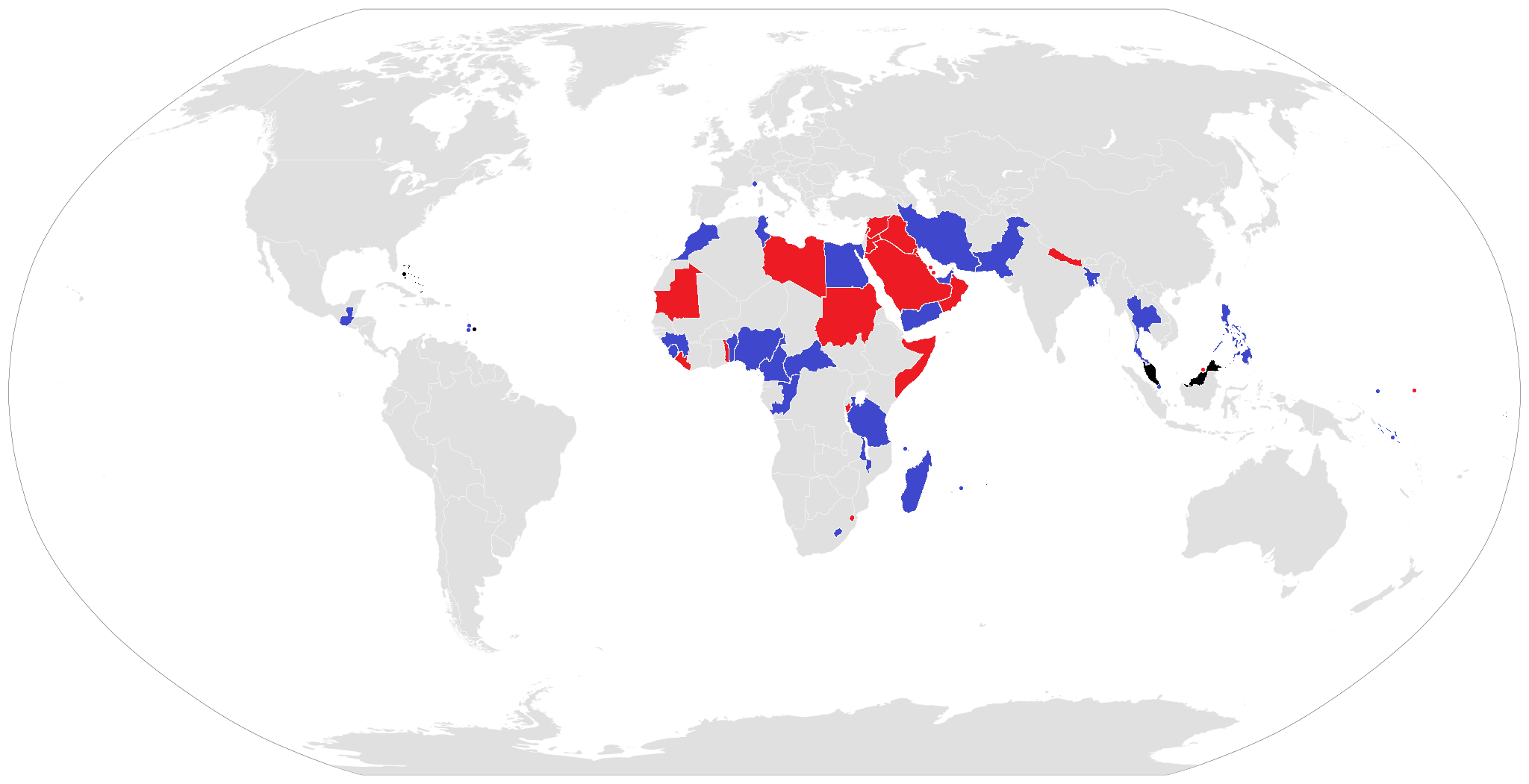 Application of Jus sanguinis worldwide Unmarried fathers’ inability to confer nationality on their children Mothers’ inability to confer nationality on their children Women’s inability to confer nationality to spouses and/or acquire, change and retain her nationality